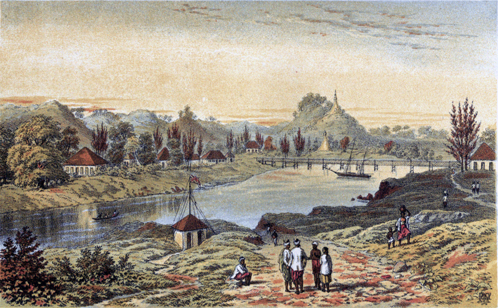 Artist rendition of Sandoway (now Thandwe) shoreline in the late 1800s.